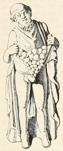 Line drawing of a statuette of Priapus at Bonn